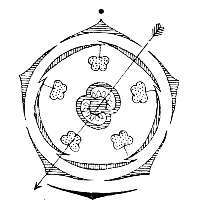 flower diagram of Petunia